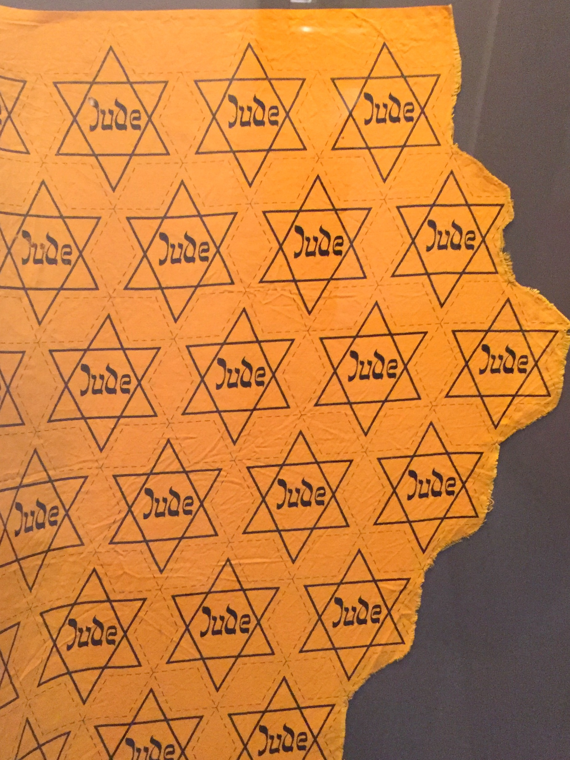 Yellow "Jude" badges. From the collection of the Jewish Museum Berlin.